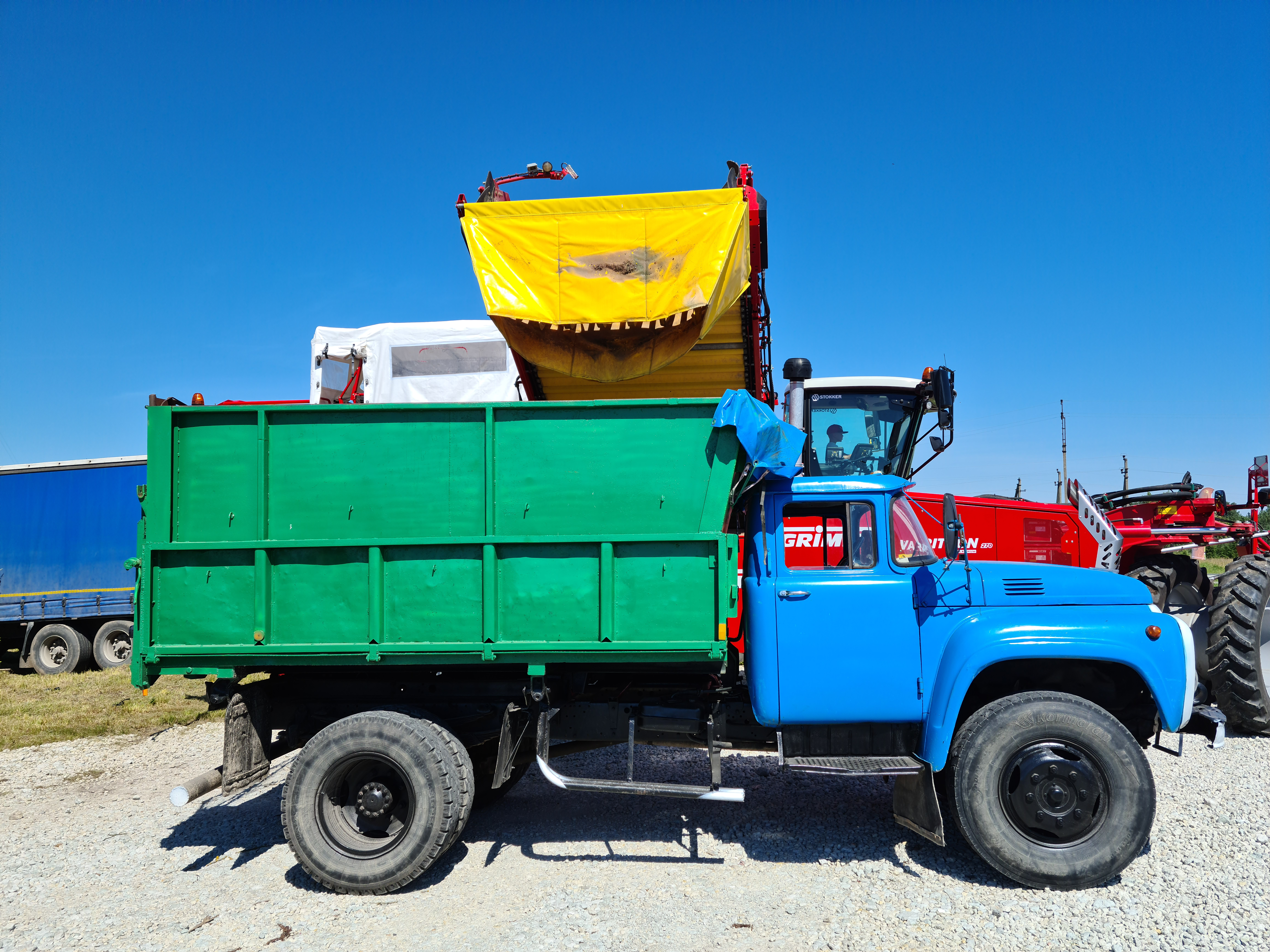 Profile view over of a ZiL-130 dump truck.